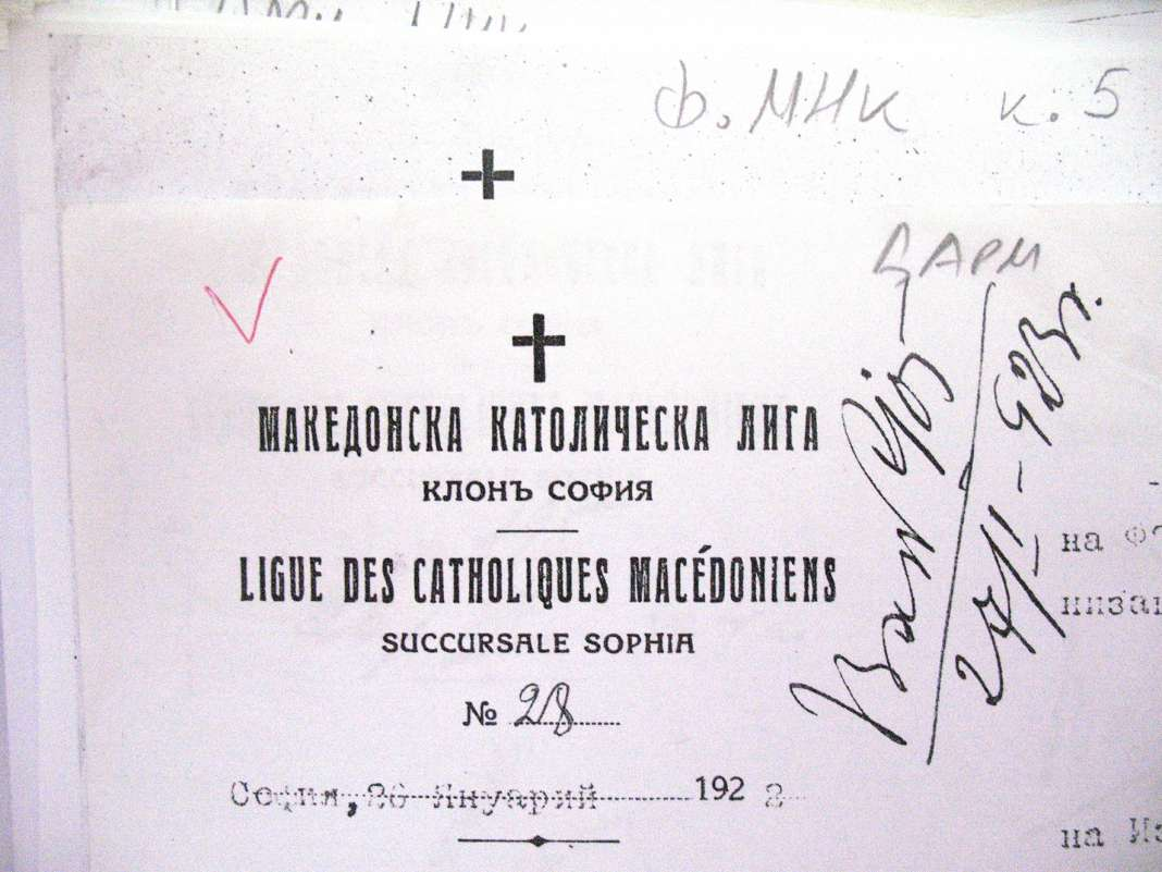 Macedonian Catholic League Document 1922